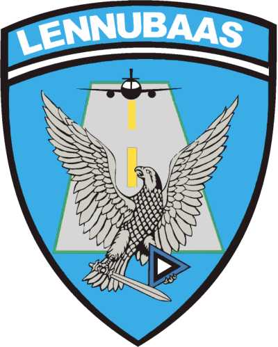 Estonian Ämari Air Base badge